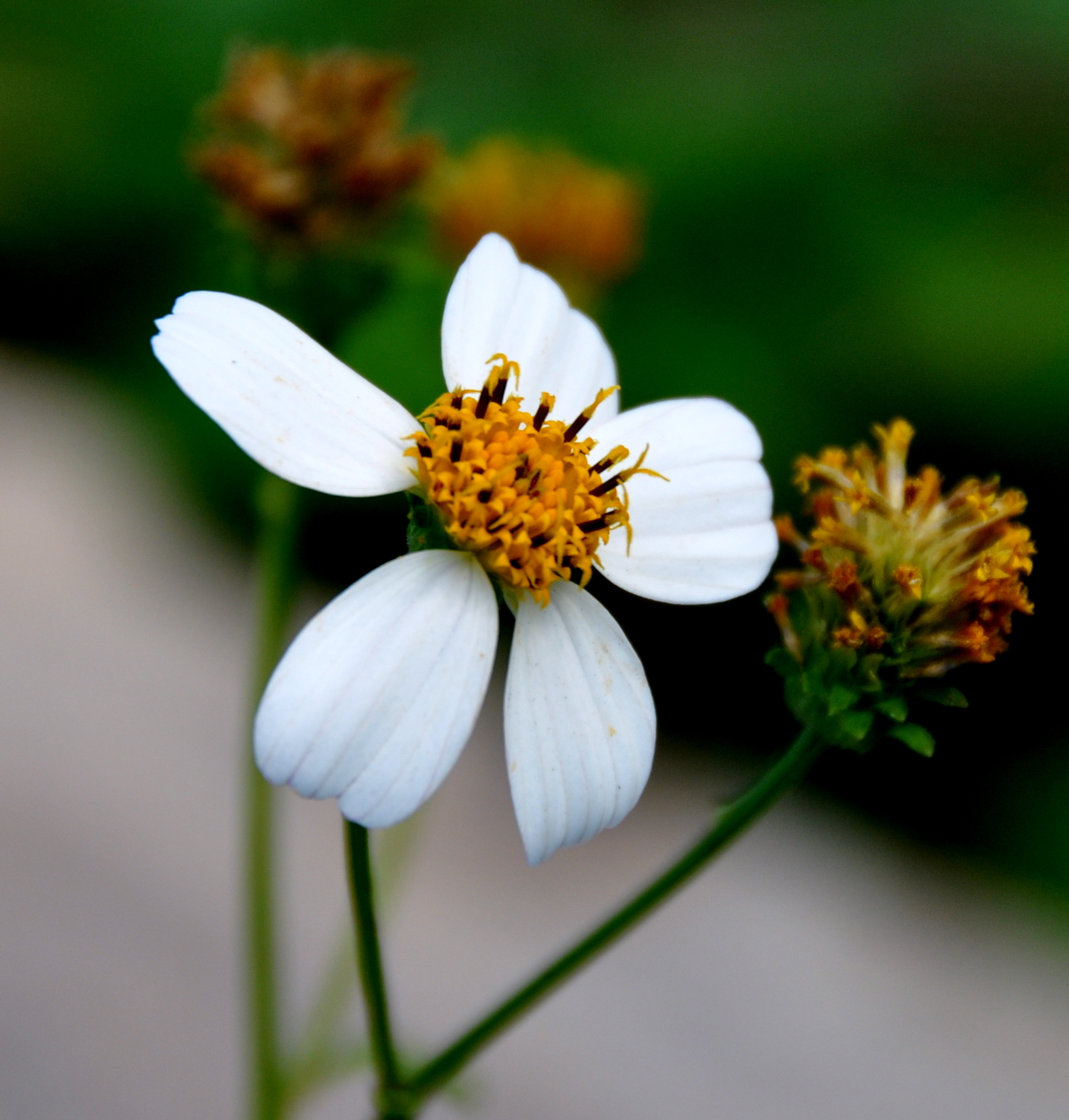 Growth in Taiwan various areas Bidens pilosa flowers.